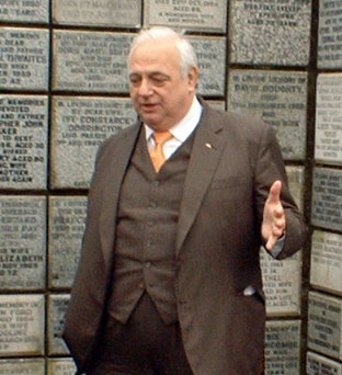 Roy Hudd on his visit to the Downs Crematorium to view Max Miller's refurbished memorial tablet